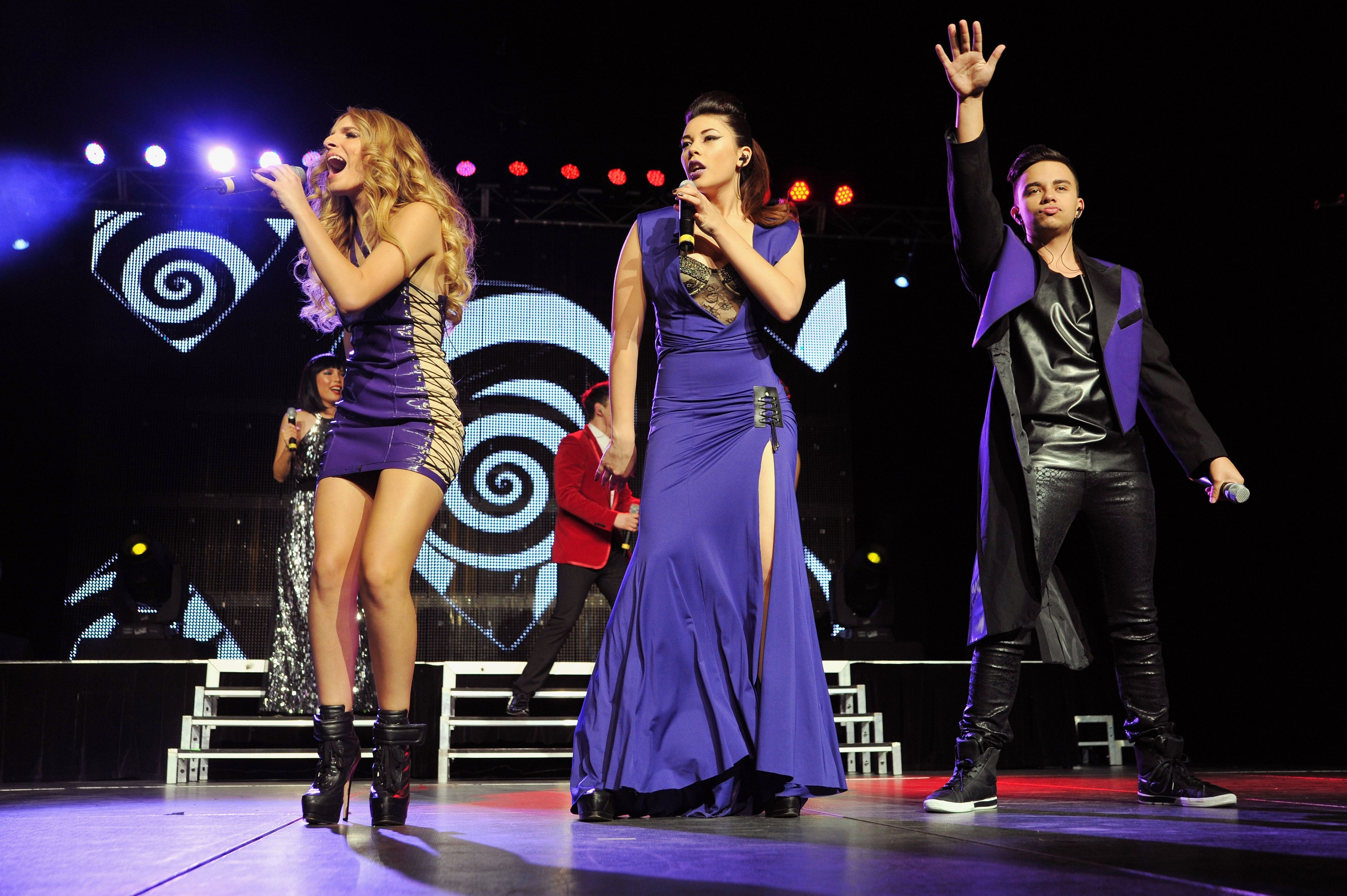 Left to right: Jacinta Gulisano, Kelebek and Jordan Rodrigues (= Third Degree) performing during The X Factor Live Tour.